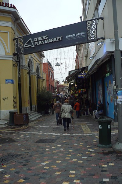 athens